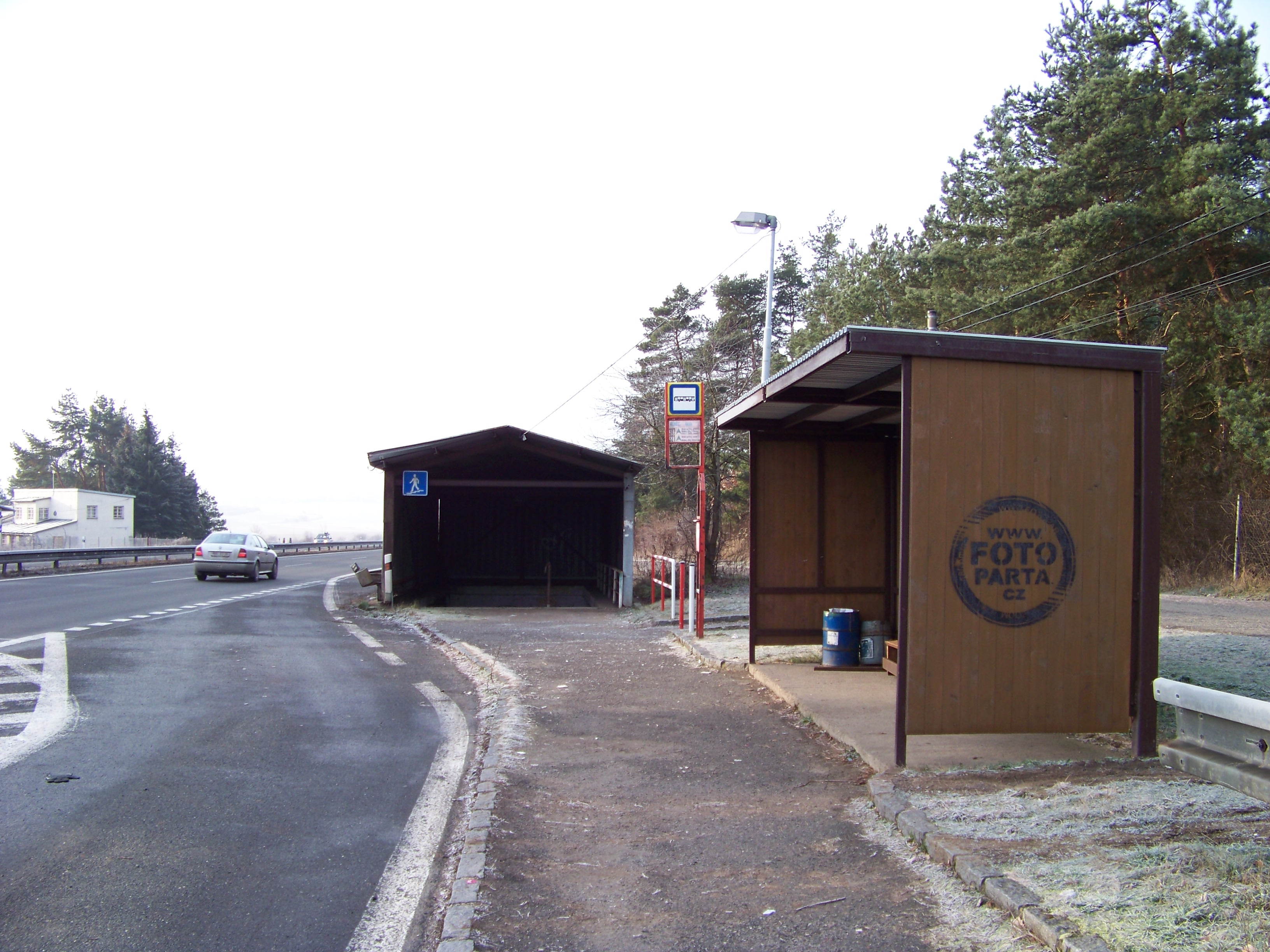 Klínec, Prague-West District, Central Bohemian Region, the Czech Republic. The bus stop "Klínec, škola".